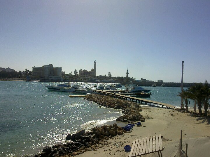 Photo of yachting club in Montaza, Alexandria